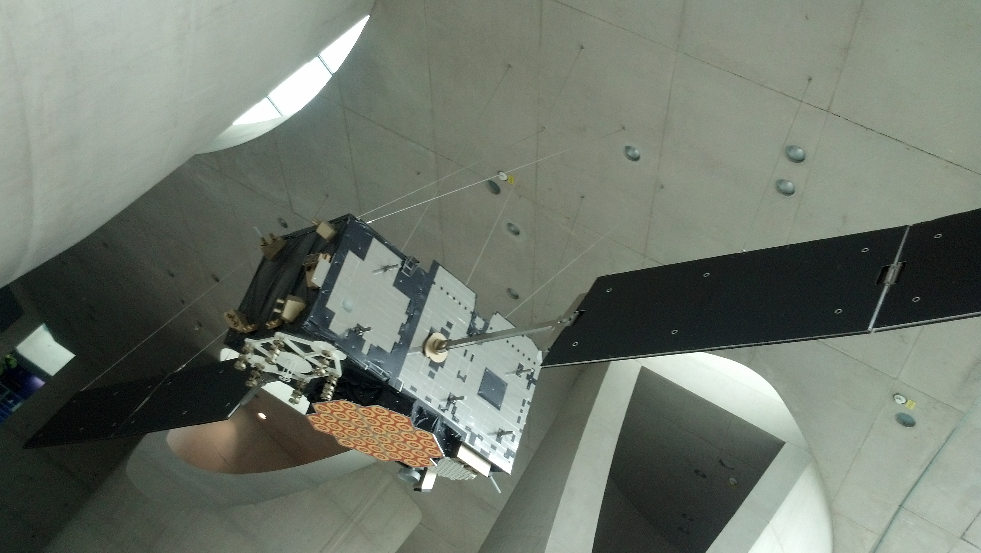 Galileo Satellite Model hanging on the roof of Galileo Control Center in GSOC